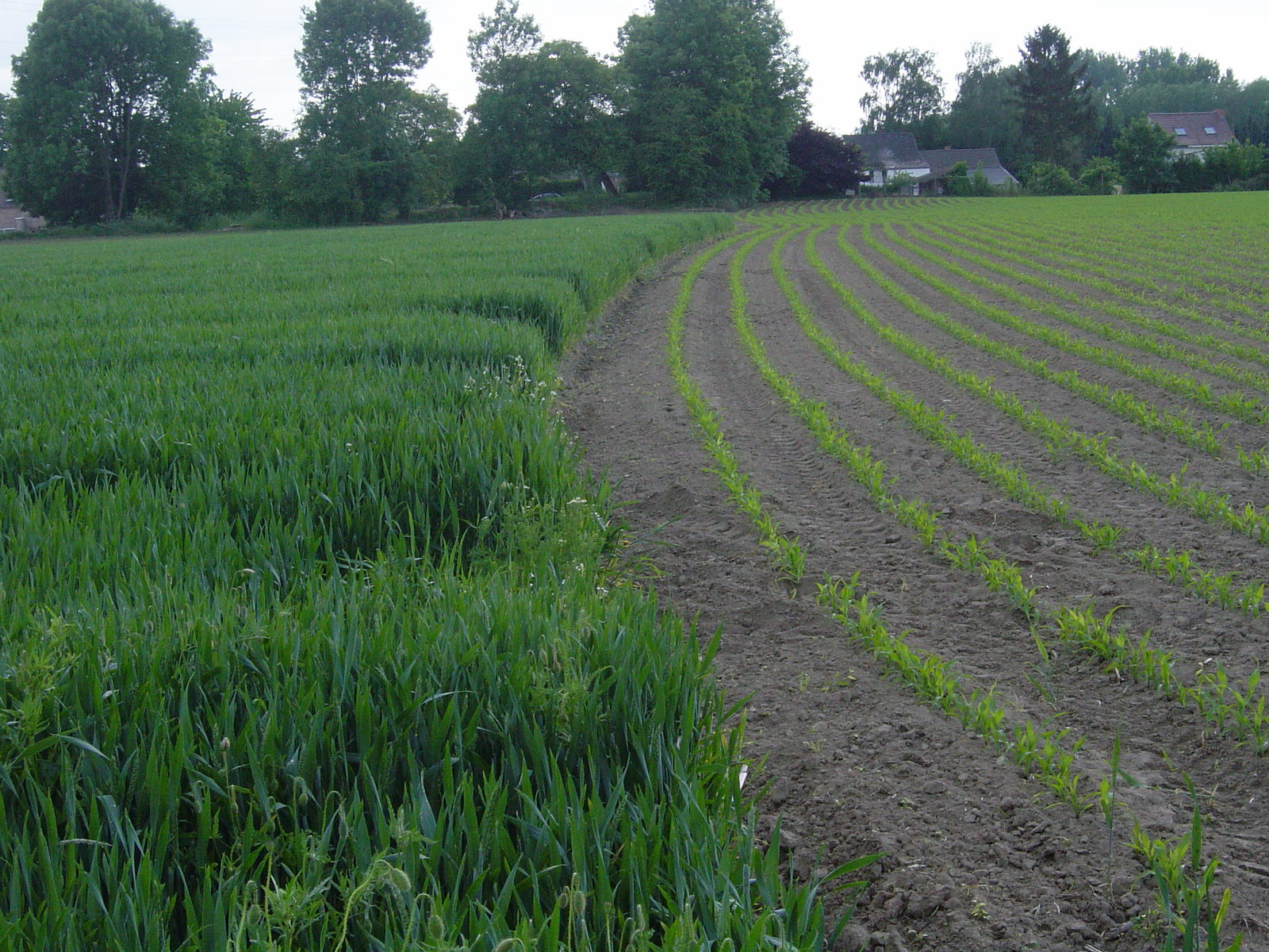 Differences in crop cover (winter wheat vs. maize) at the end of May, in central Belgium